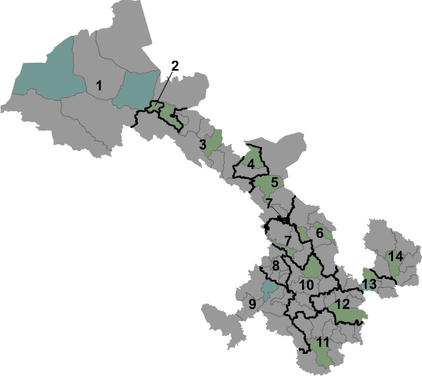 Map of prefectures of Gansu Province